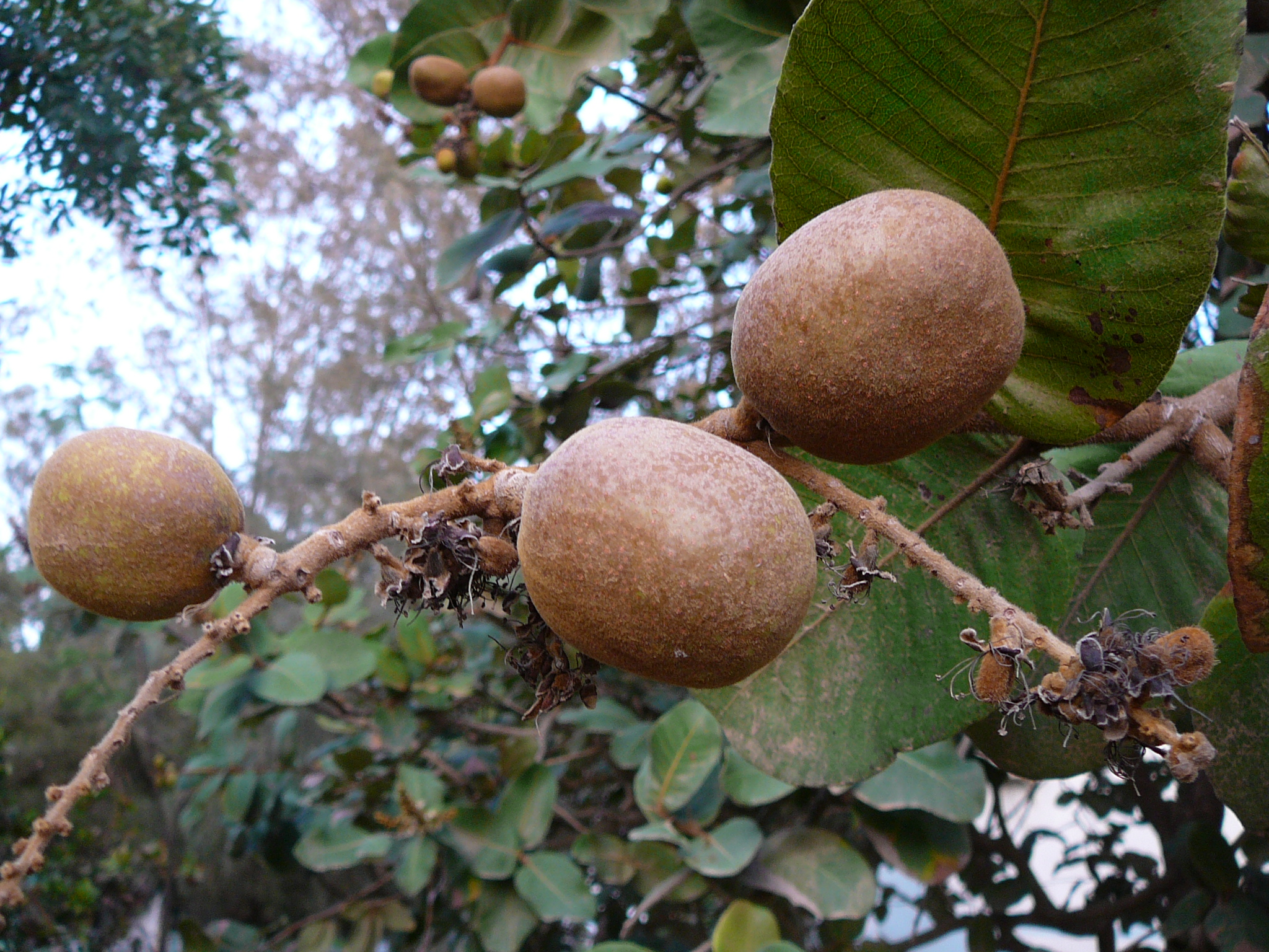 Neocarya macrophylla